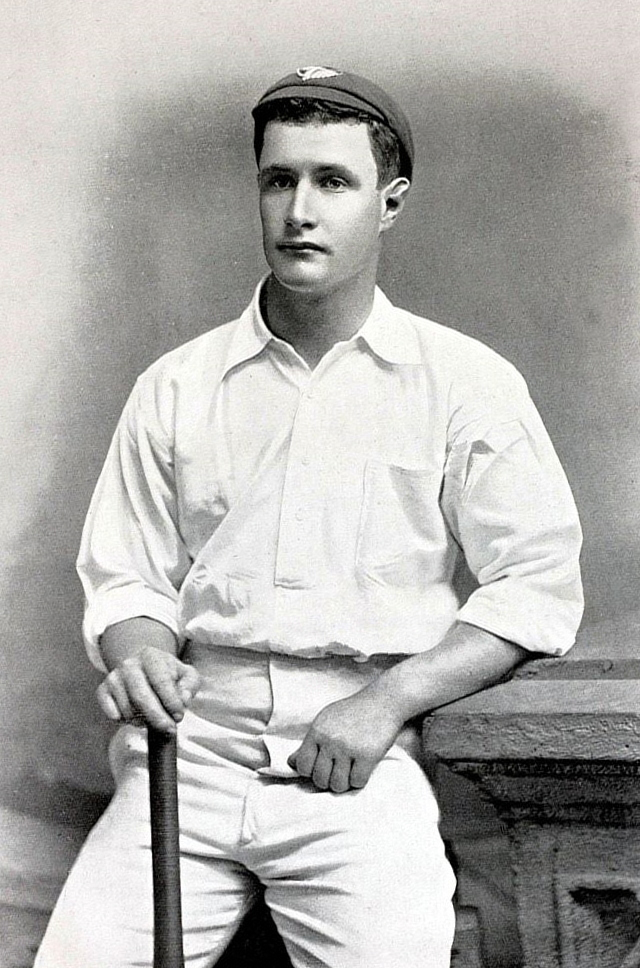 Sport, Cricket, Circa 1895, Henry Graham, Victoria (1892-1903) and Australia